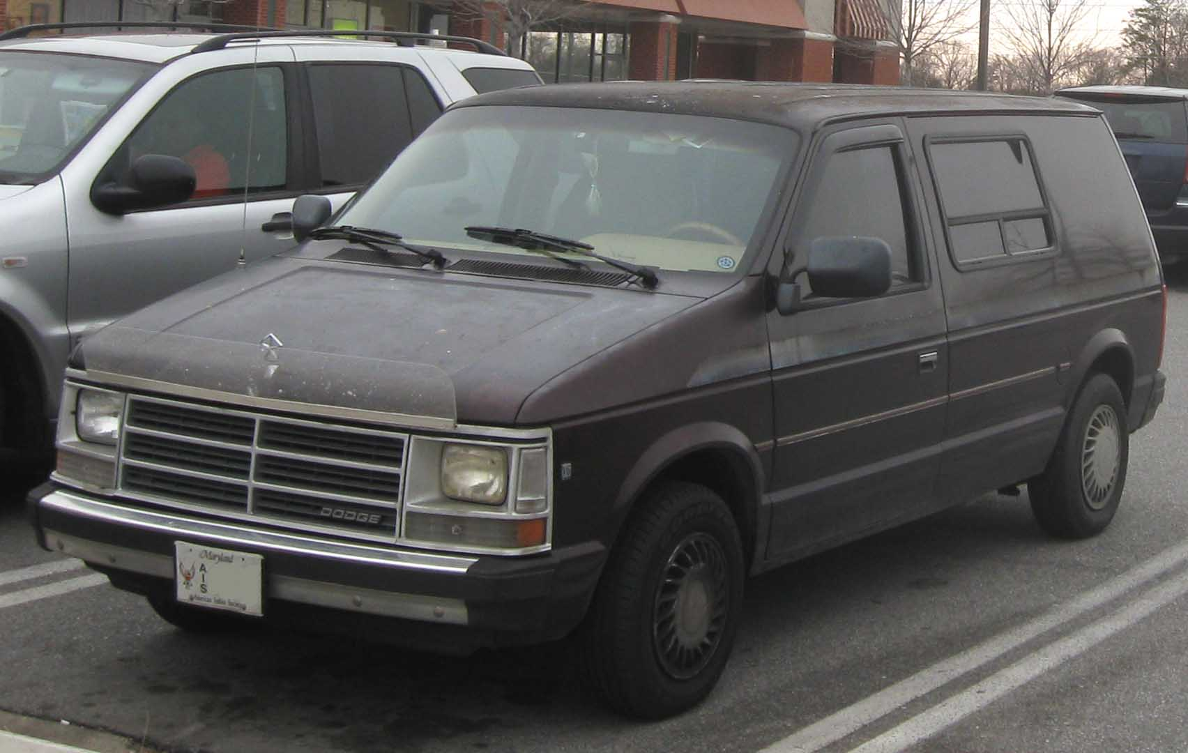 1989-1990 Dodge Caravan C/V photographed in Accokeek, Maryland, USA.